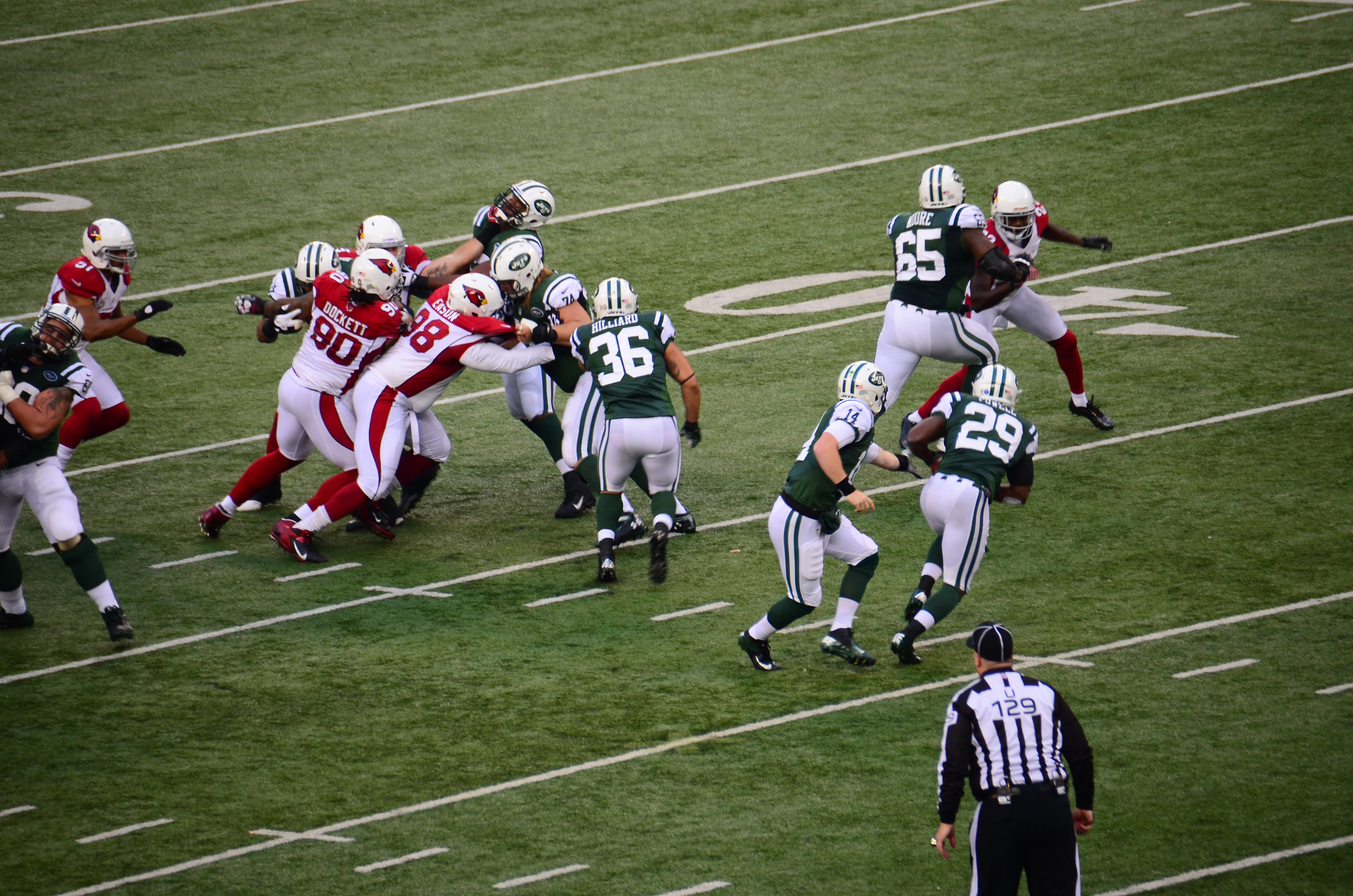 NY Jets quarterback Greg McElroy hands off the ball to Bilal Powell.